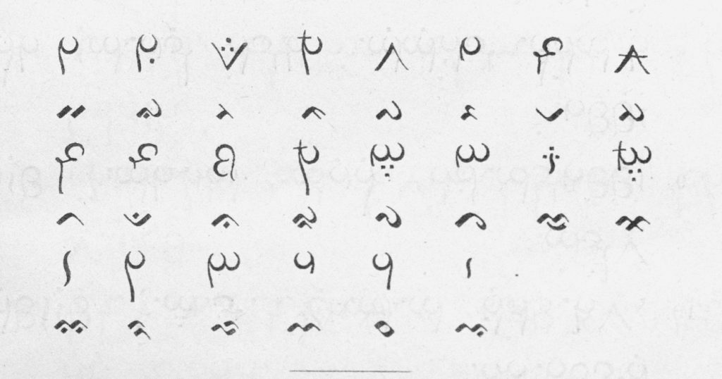 a table of buginese cypher script with equivalent in standard buginese script cited by B F Matthes in his book "Eenige proeven van Boegineesche en Makassaarsche Poëzie", 1883.